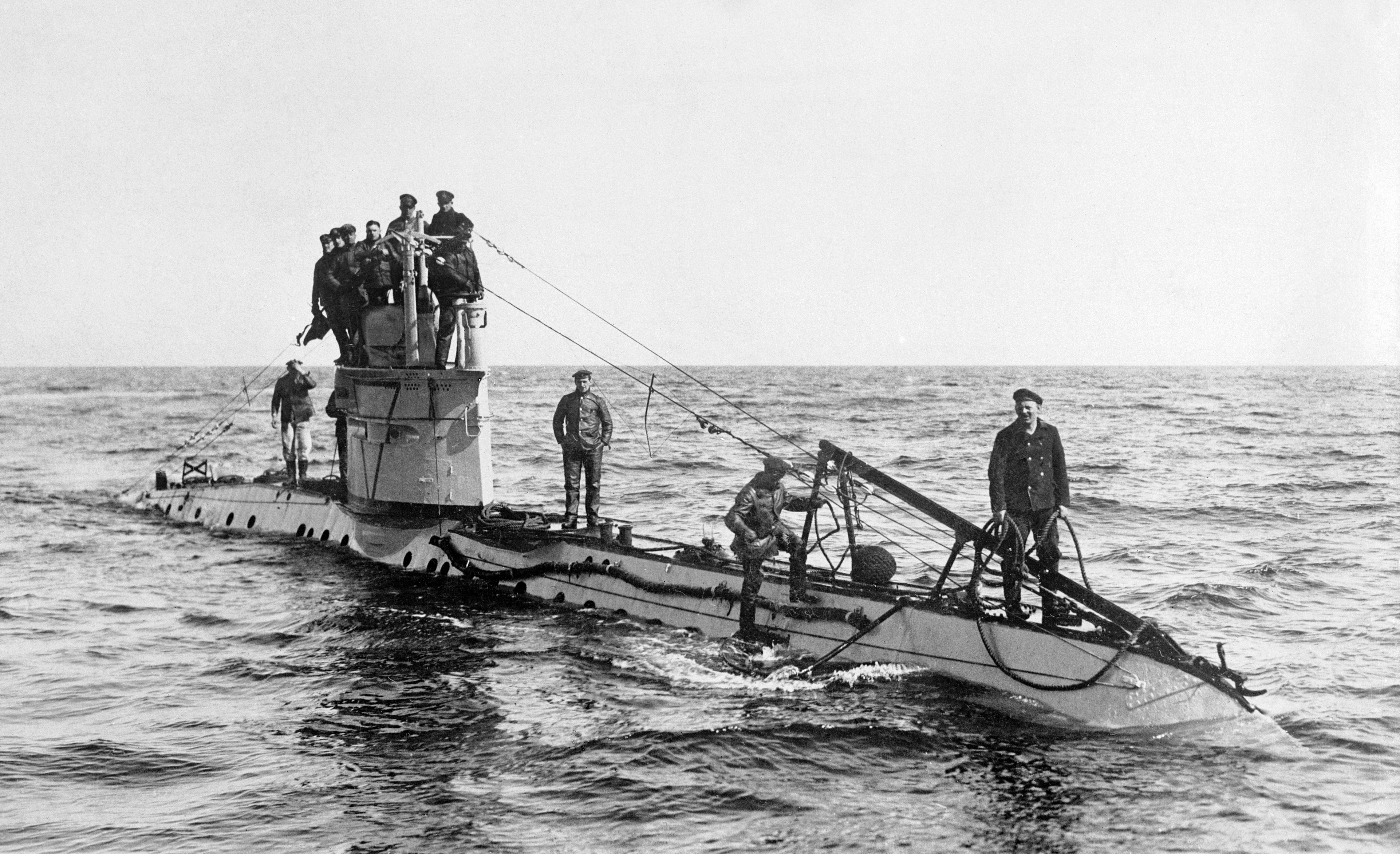 The crew of a German UC-1 class submarine on deck. Introduced in 1915, the submarines of this class were employed mainly on minelaying duties and carried up to twelve mines. German submarines sank 1,845,000 tons of Allied and neutral shipping between February and April 1917. - unknown date